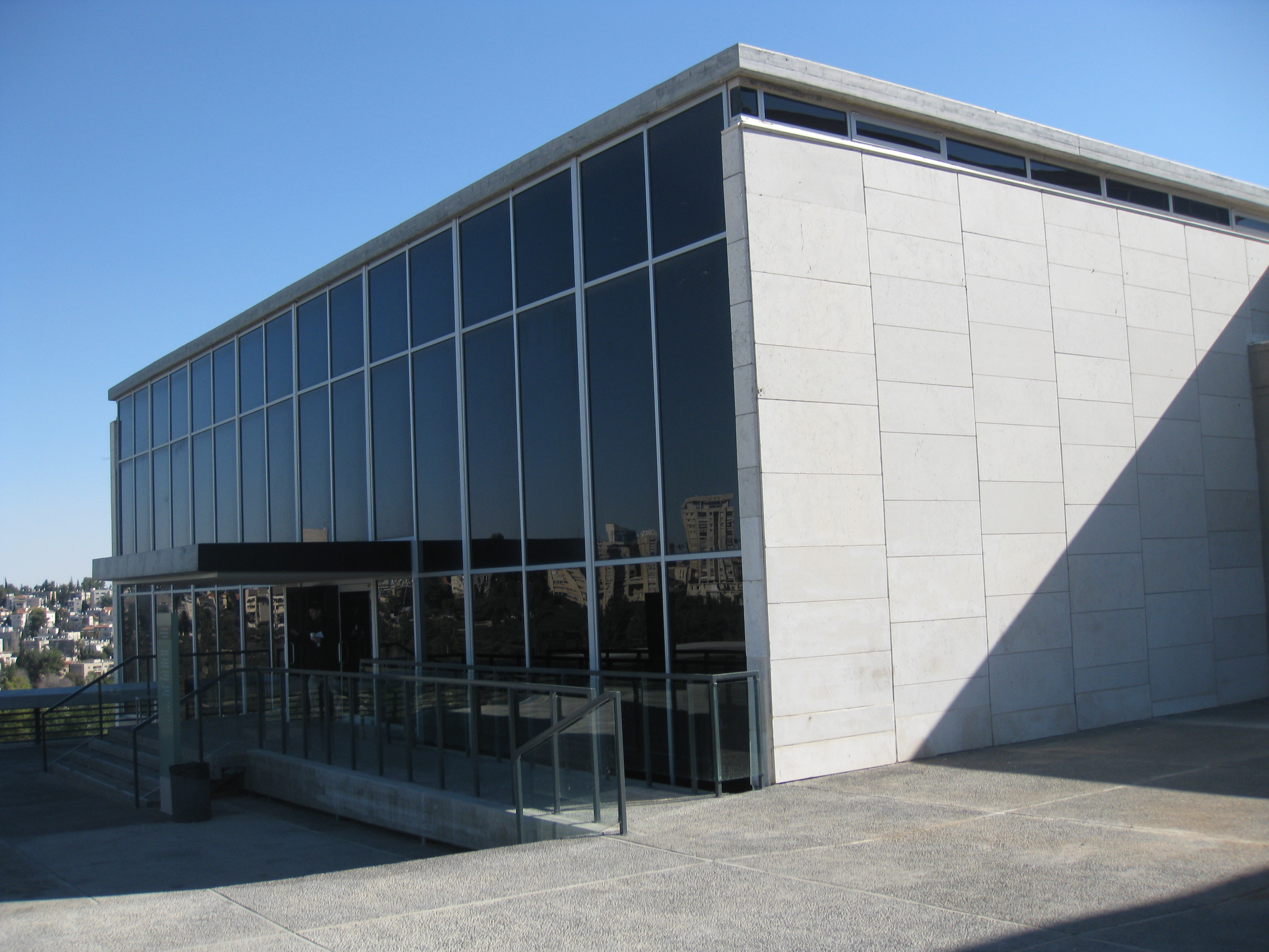 Israel museum, Jerusalem